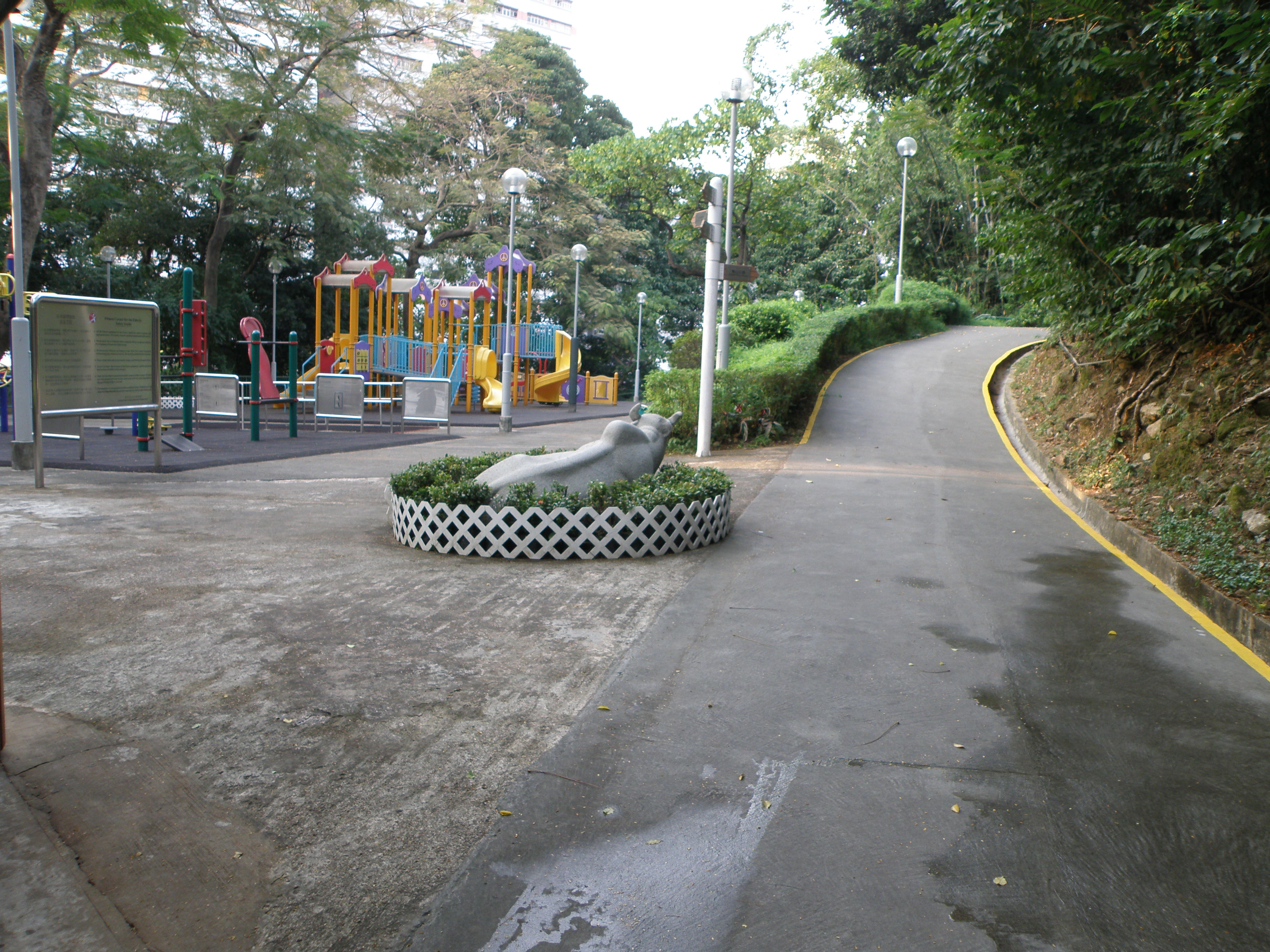 Central Kwai Chung Park in Kwai Chung, Hong Kong.